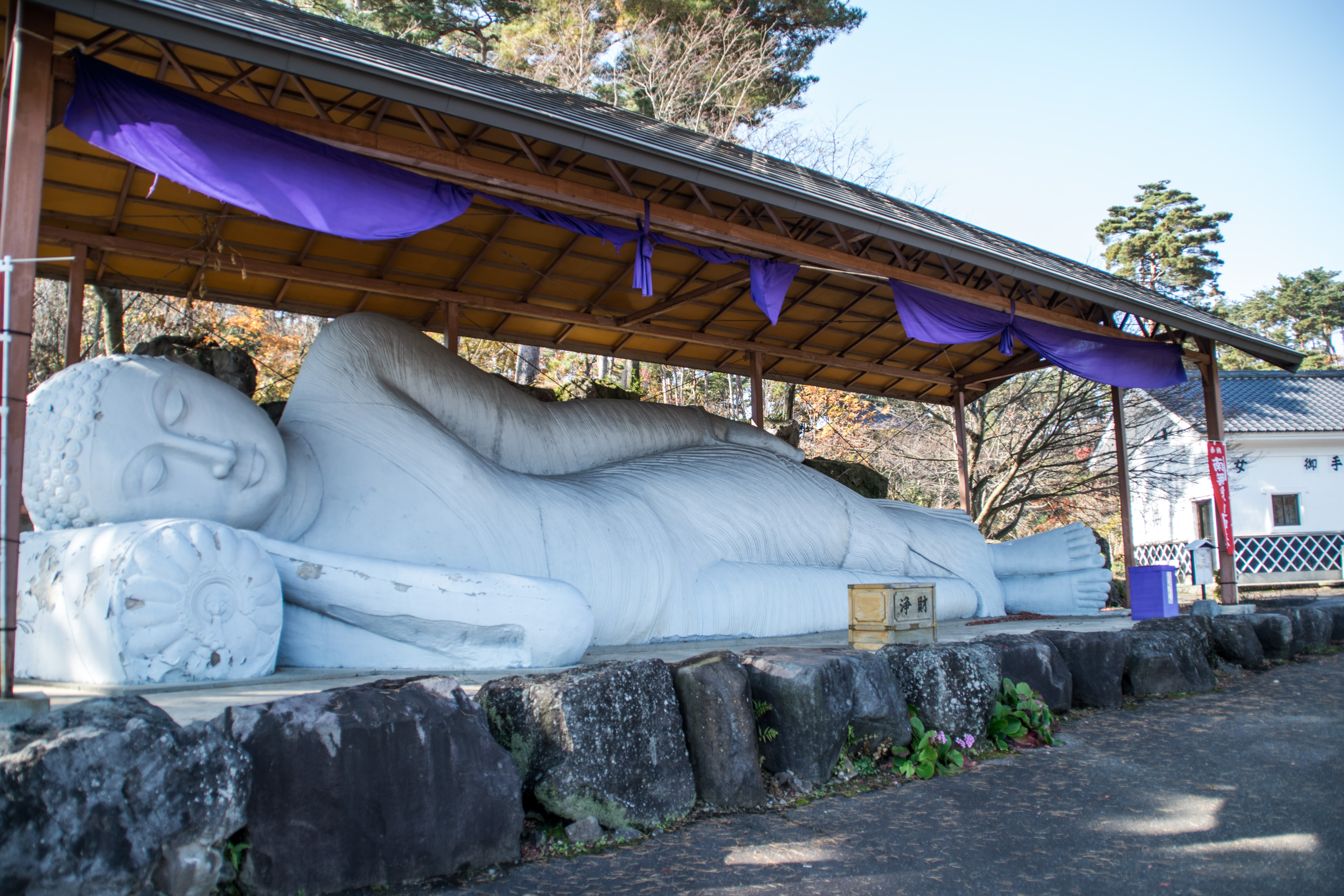 Reclining buddha in Aizu, Fukushima pref Japan